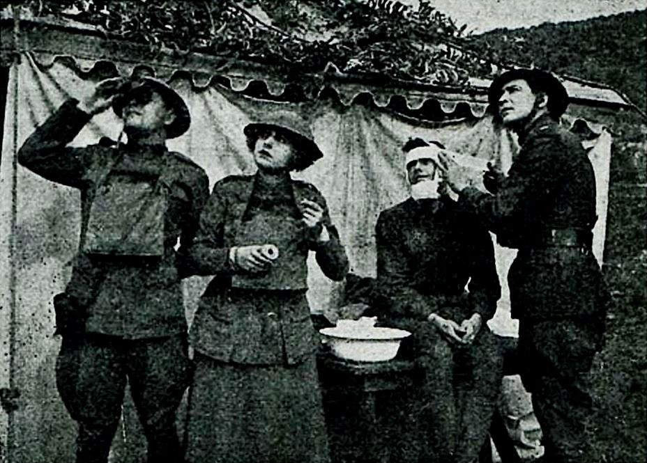 Still from the American film Fires of Faith (1919), on page 5 of the May 1919 The Tatler.